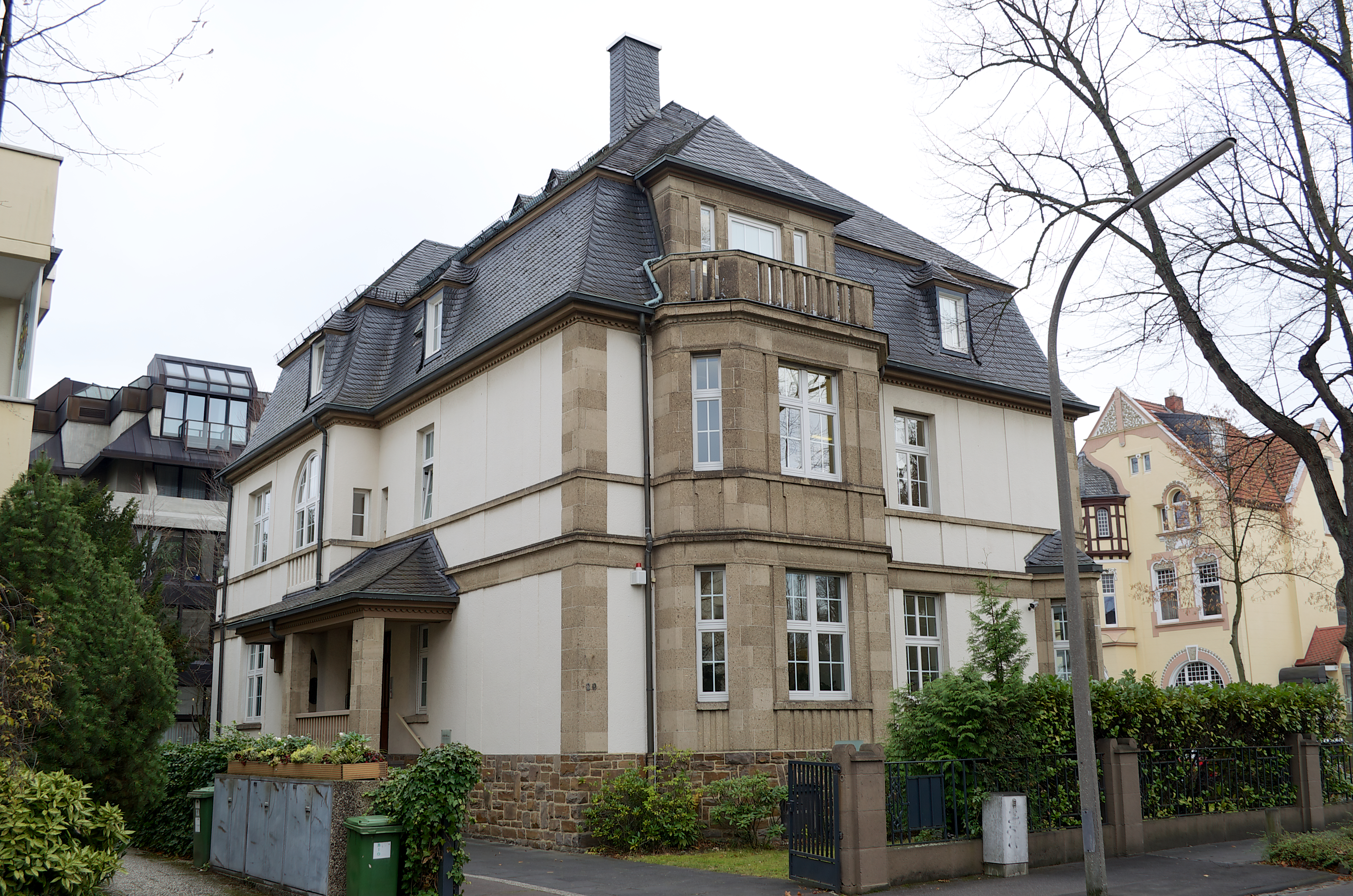 Cultural heritage monument in Bad Godesberg